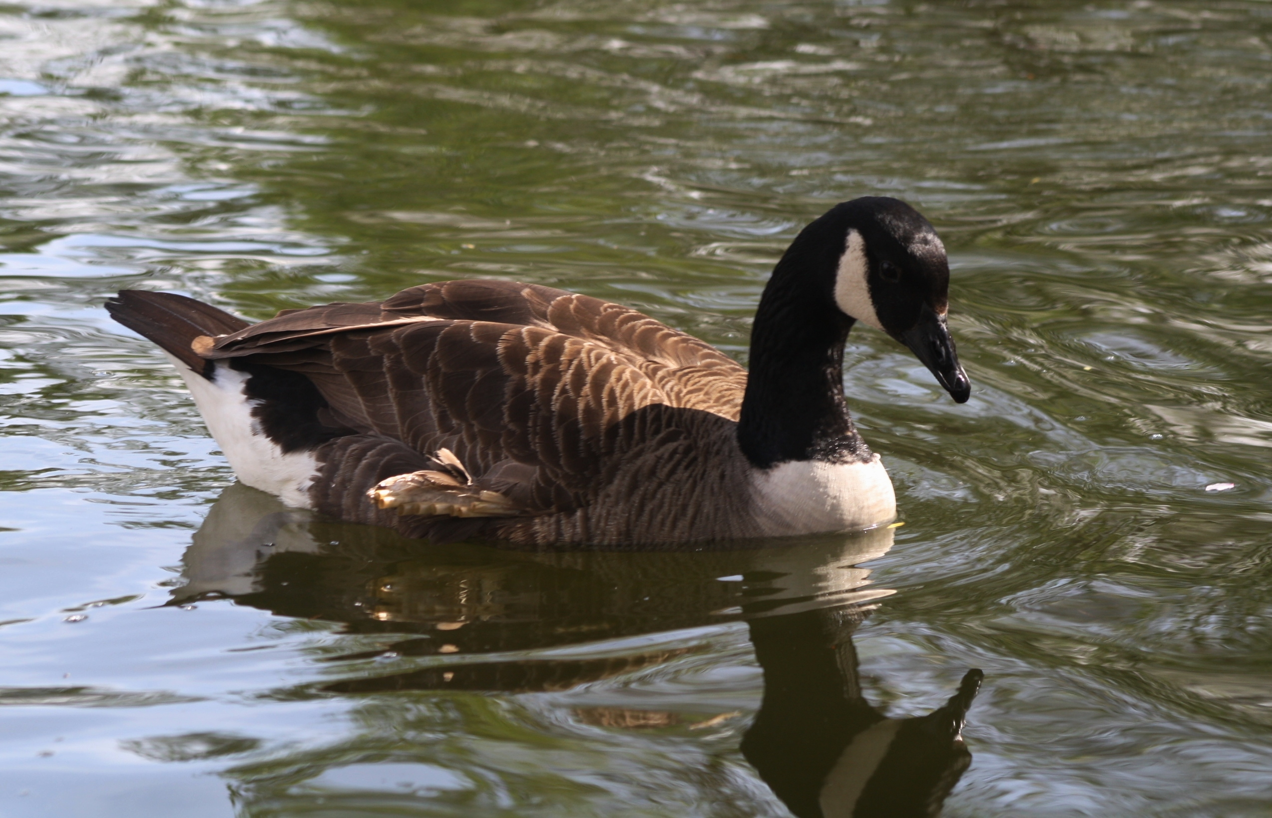 Canada goose Branta canadensis. Hyde Park, London, UK. Photo by Dr. Raju Kasambe